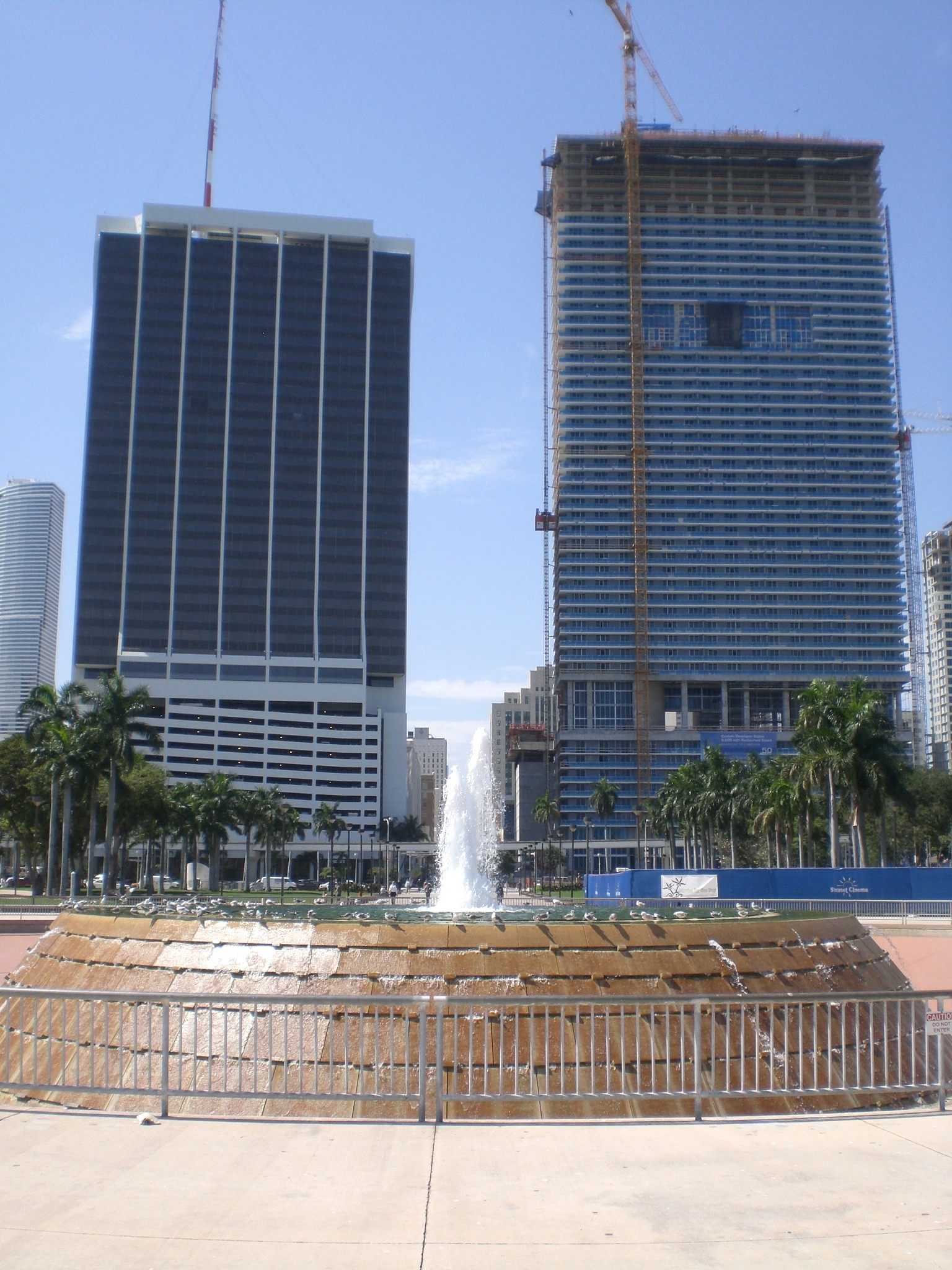 Digital photo taken by Marc Averette. 50 Biscayne Tower & Miami Center as seen from park fountain 3/5/2007.